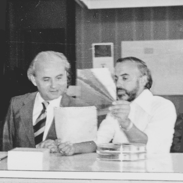 Hans Matthöfer, Federal Minister for Research and Technology, in the computer data center of the ZMD in Frankfurt Main-Niederrad in September 1975